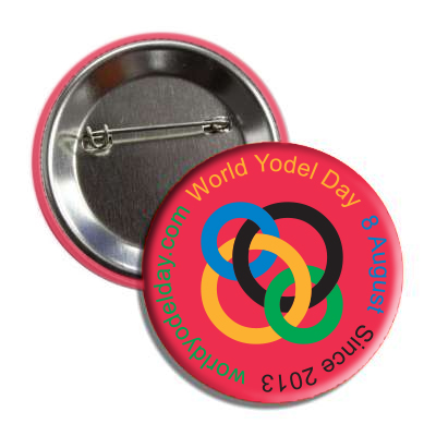 World Yodel Day Pin Button designed by Minsung Park, a Korean Yodeler